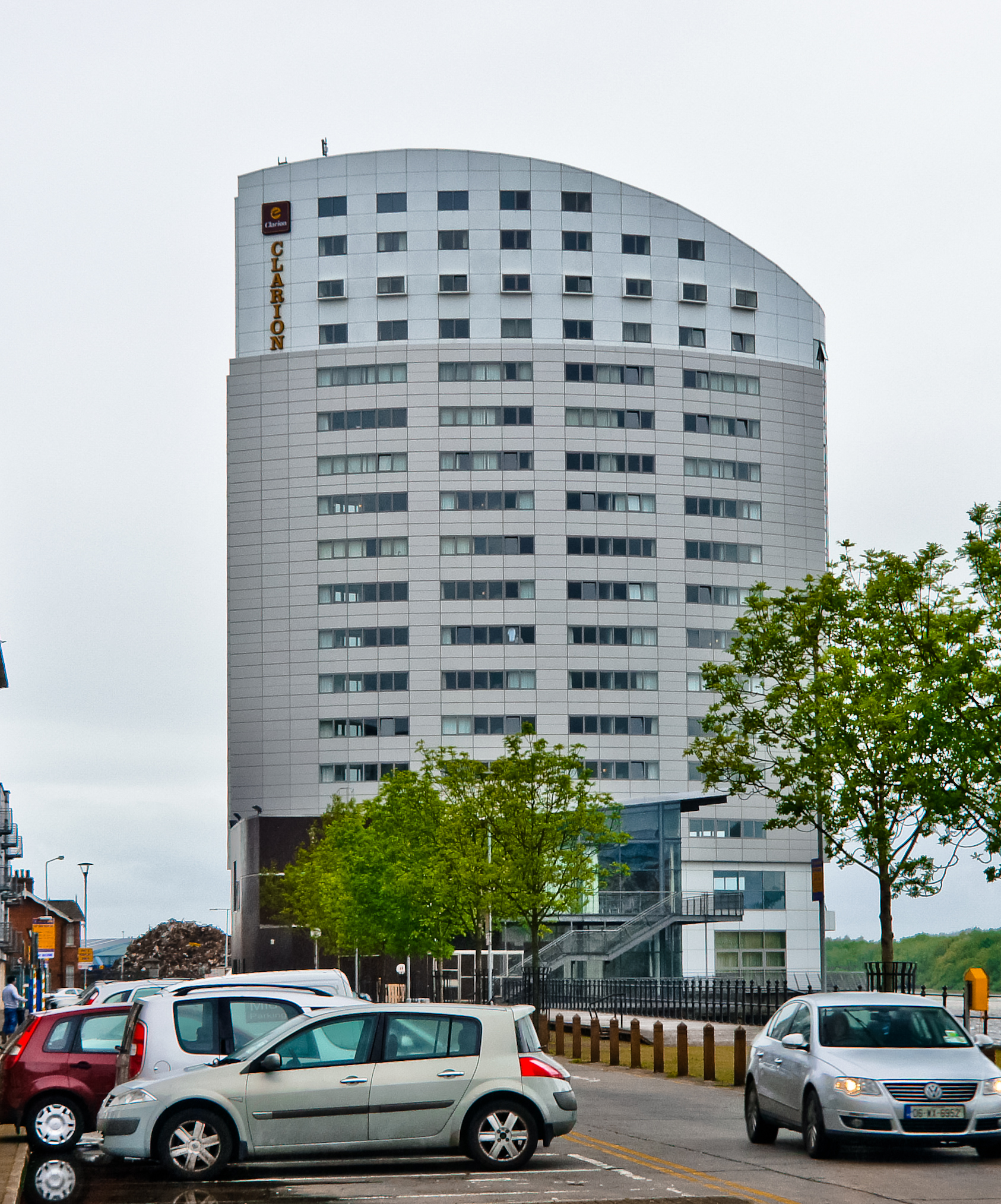 A view of The Clarion Hotel in Limerick on Steaboat Quay